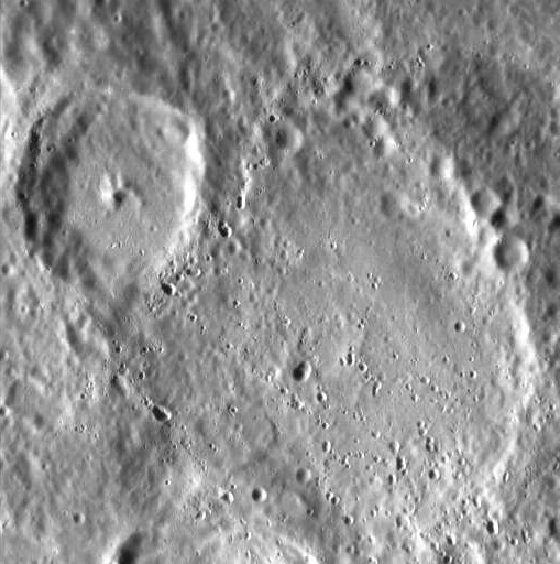 Byron crater on Mercury. MESSENGER Narrow Angle Camera. North at top. Emission Angle: 23.5 Incidence Angle: 65.9 Latitude: -8.1 Longitude: 326.8 Phase Angle: 89.5